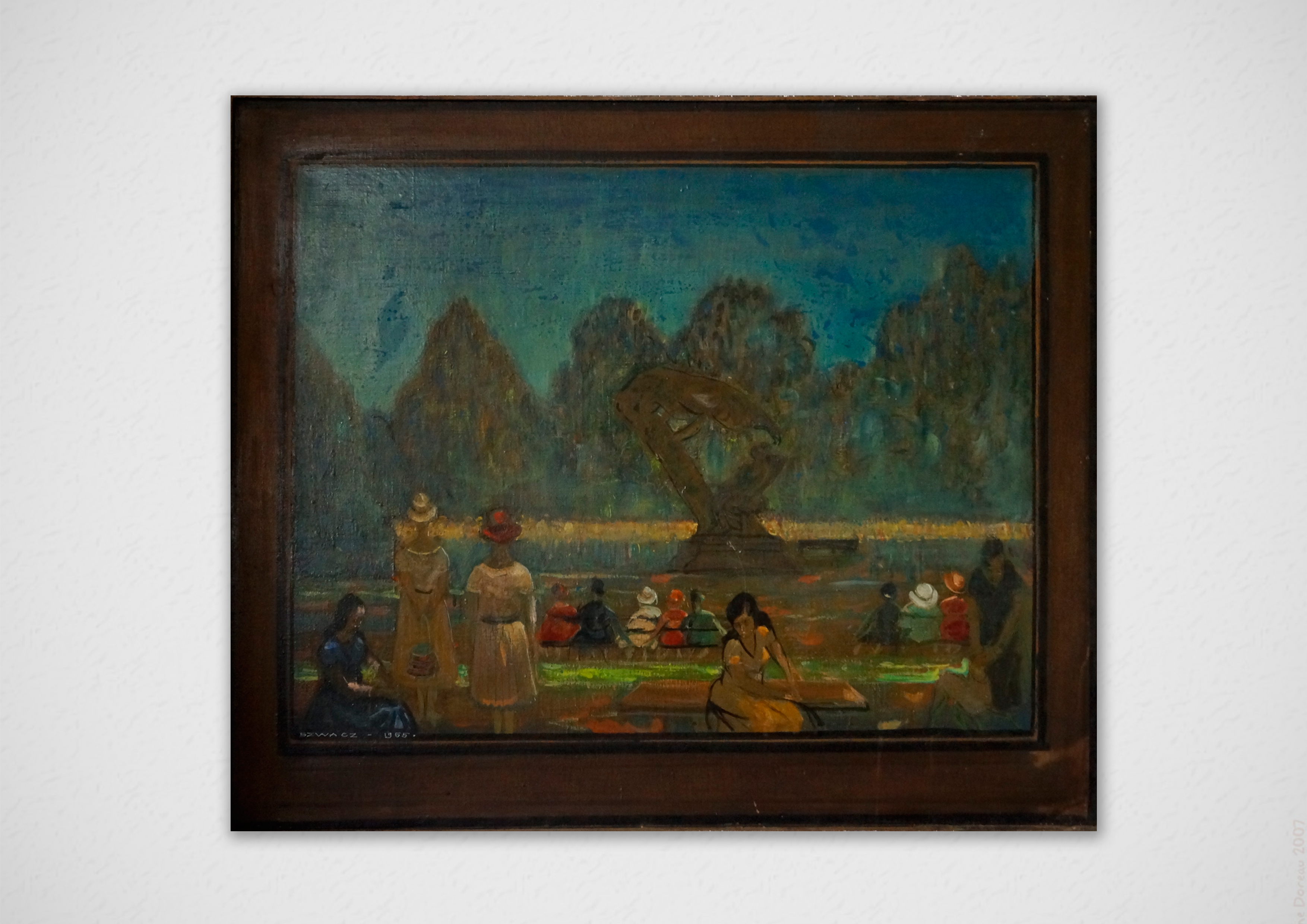 Painting by Boguslaw Szwacz depicting Concert at the Chopin Monument in Warsaw. Made in 1965. Oil on canvas.